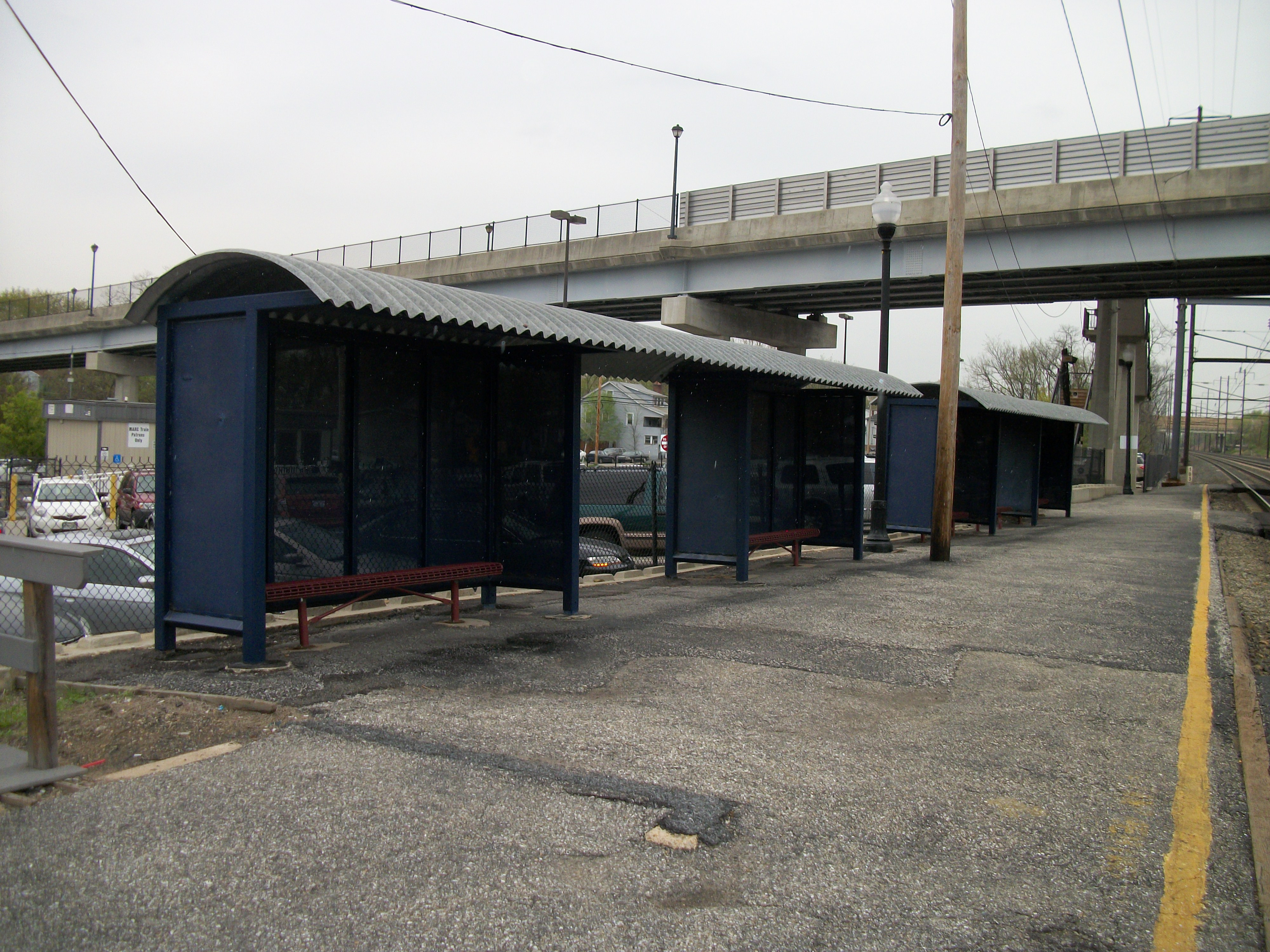 The southbound platforms of Halethorpe (MARC station) as seen from the platform in Halethorpe, Maryland. The Francis Avenue Bridge is in the background.